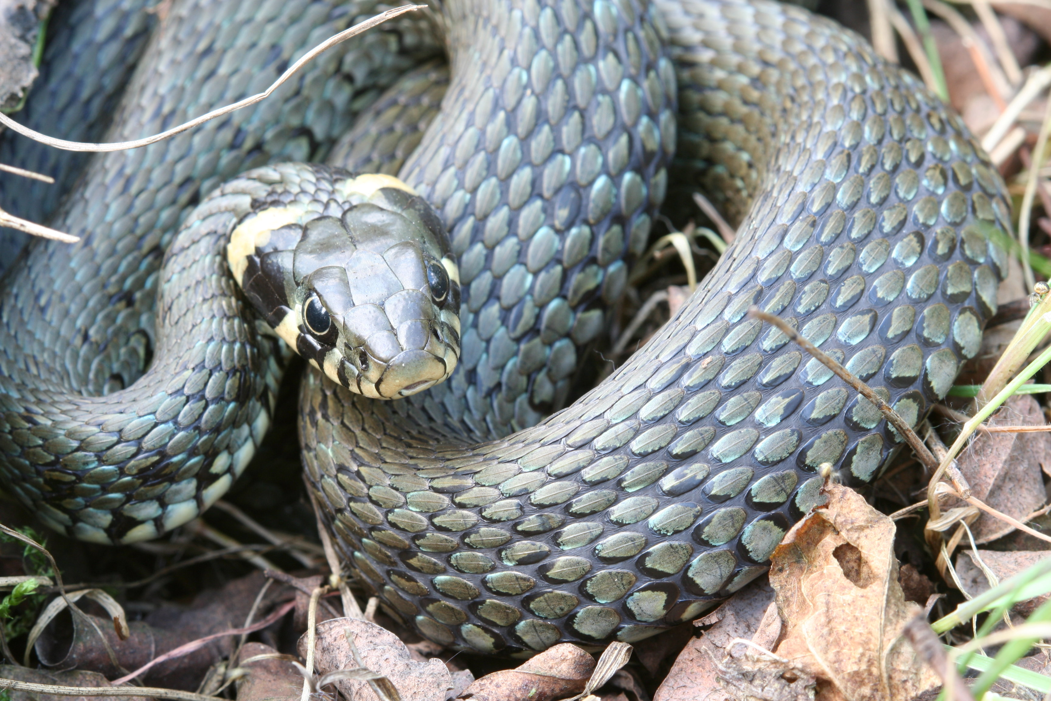 Grass Snake close-up